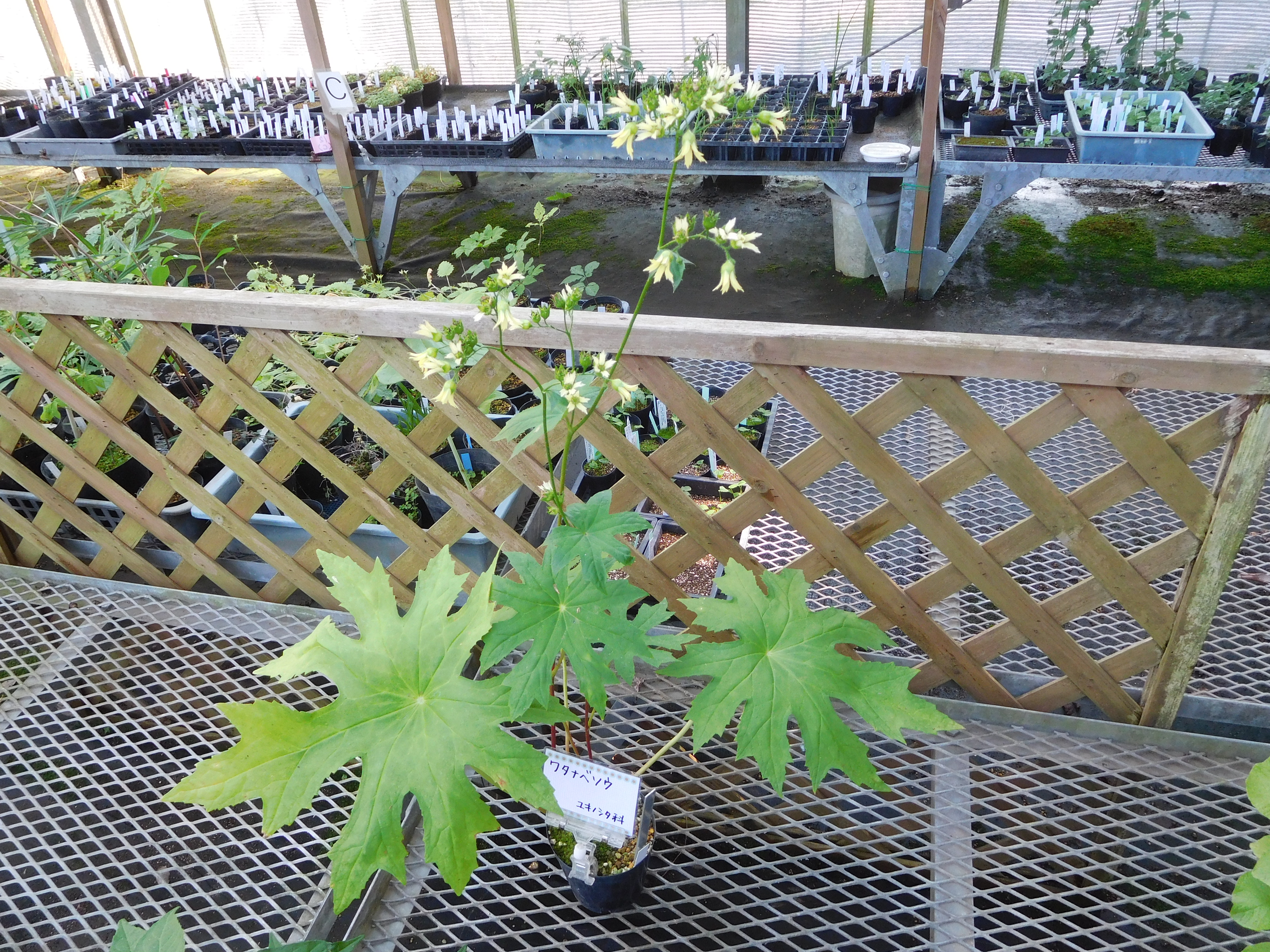 This is Peltoboykinia watanabei in Tsukuba Botanical Garden, Tsukuba, Ibaraki, Japan.